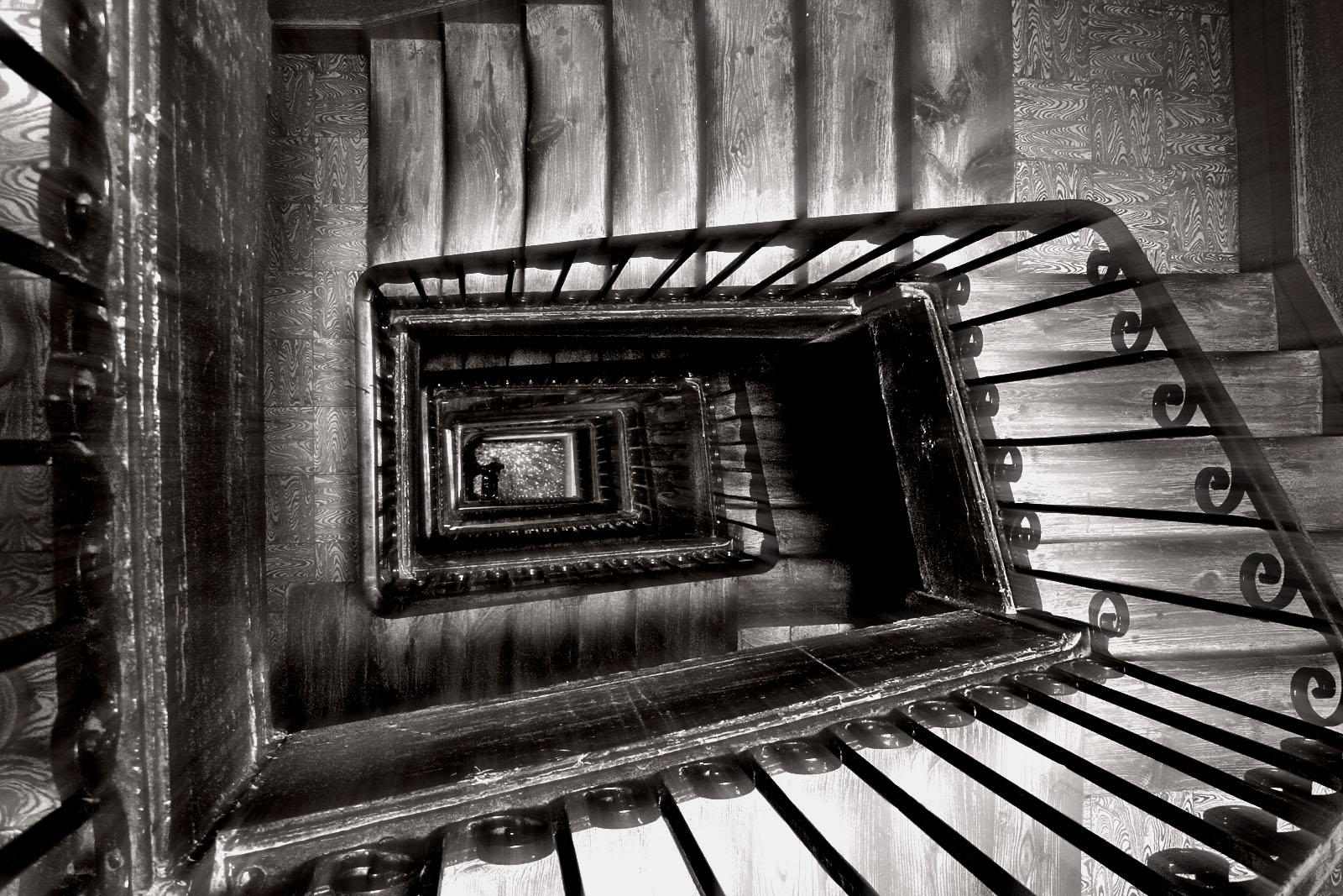 Staircase of a building in Madrid (Spain).